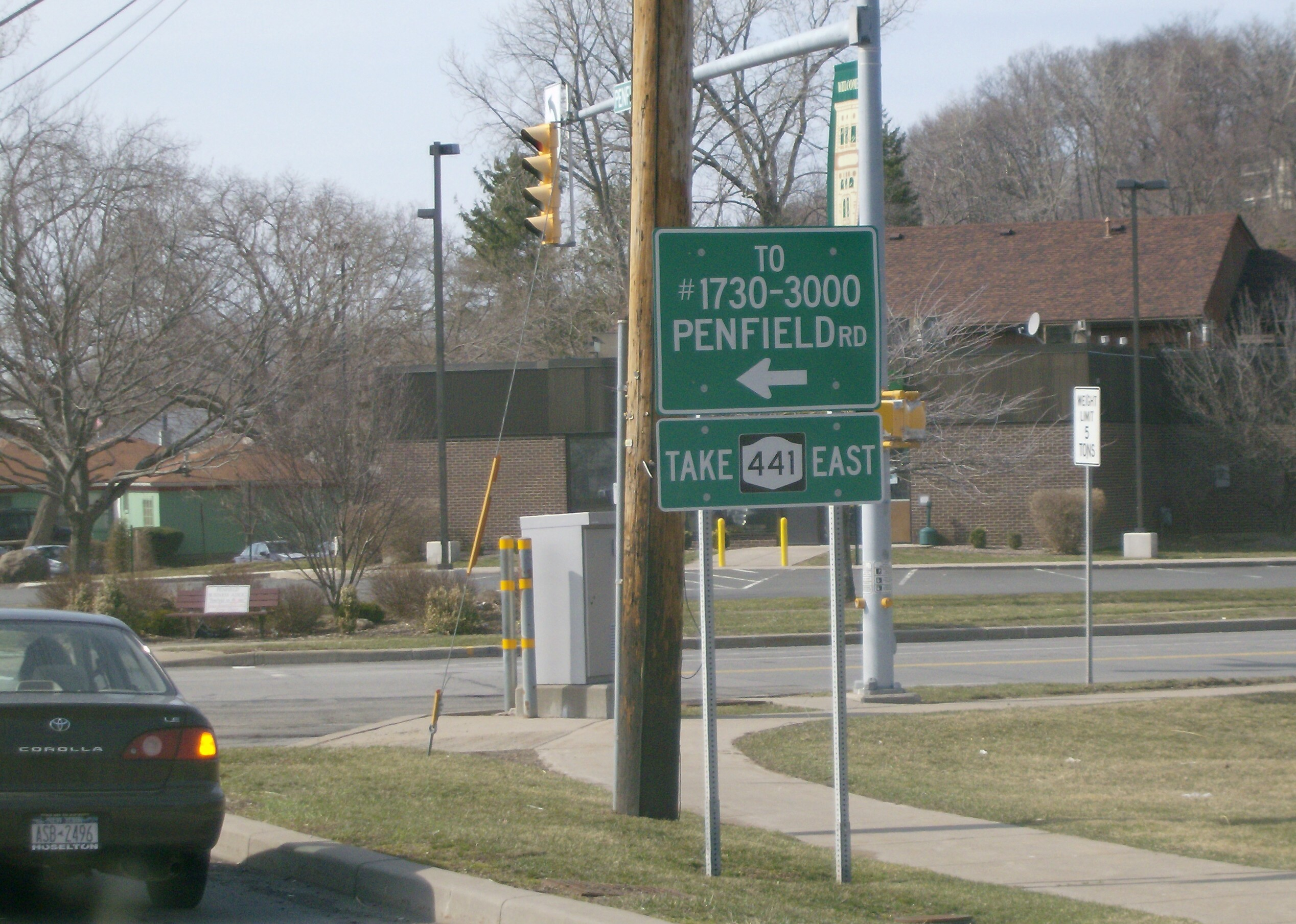 Sign at the intersection of Penfield Road and Panorama Trail in Penfield, New York, directing traffic destined for NY 441 onto Panorama Trail. An interchange exists between NY 441 and Panorama Trail about a half-mile to the south of this intersection. Of note is that Penfield Road was the original routing of NY 441 before a new highway was built for it around 1970.